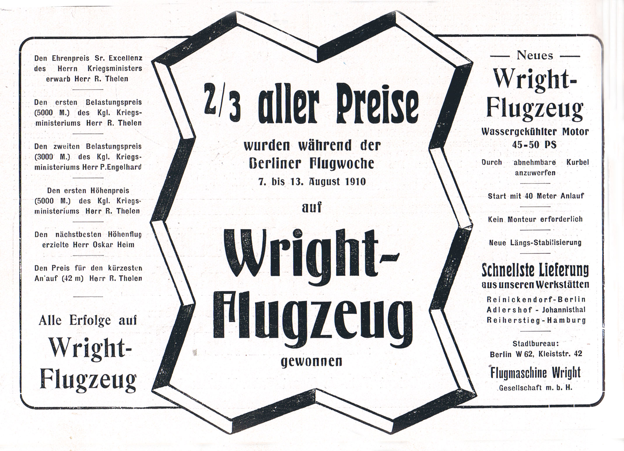 advertisement of the Wright Company Berlin, Germany